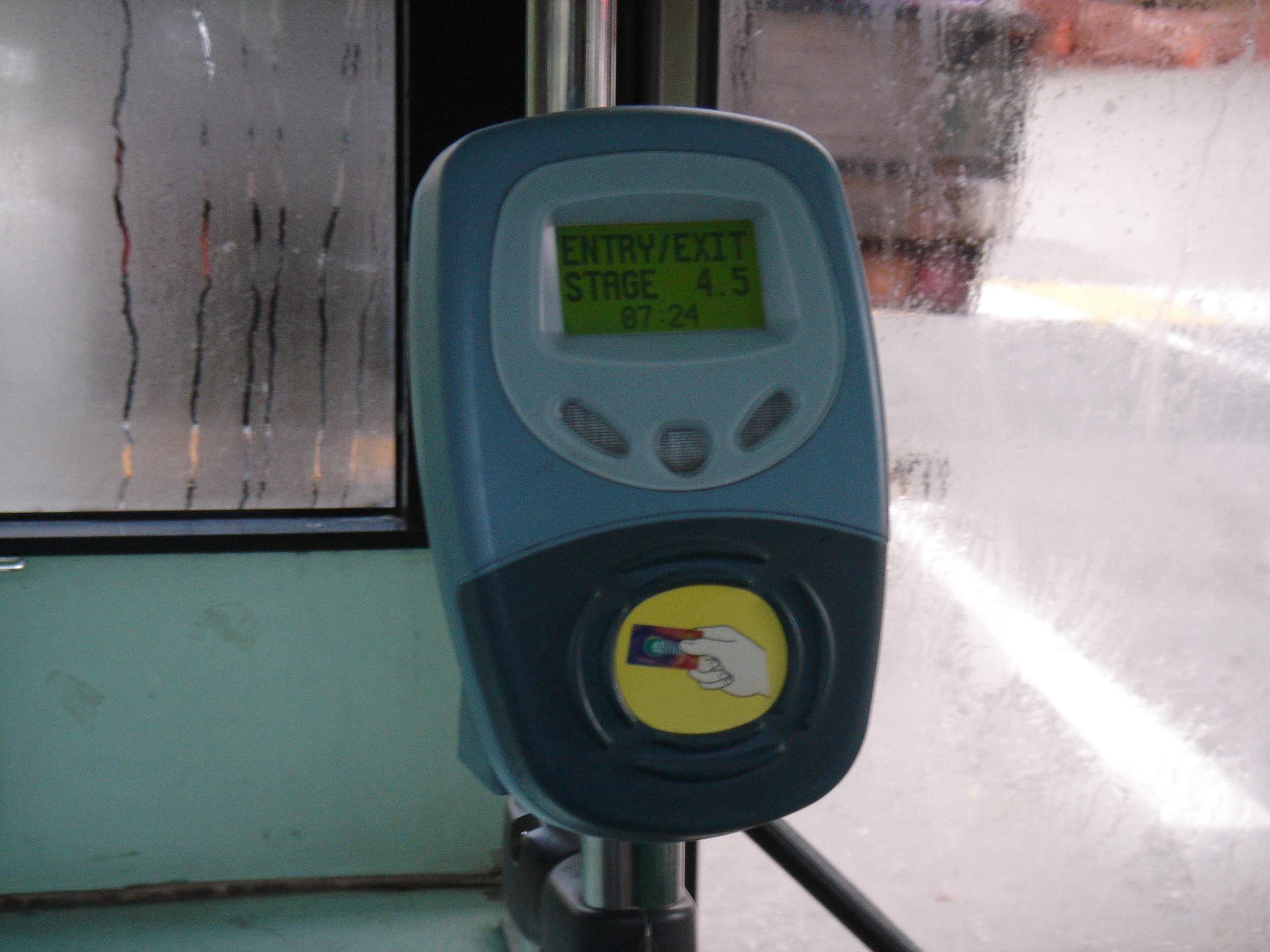 EZ-link cardreader on the entrance of an SMRT bus. There are usually two readers on both entrance and exit of every public bus in Singapore.